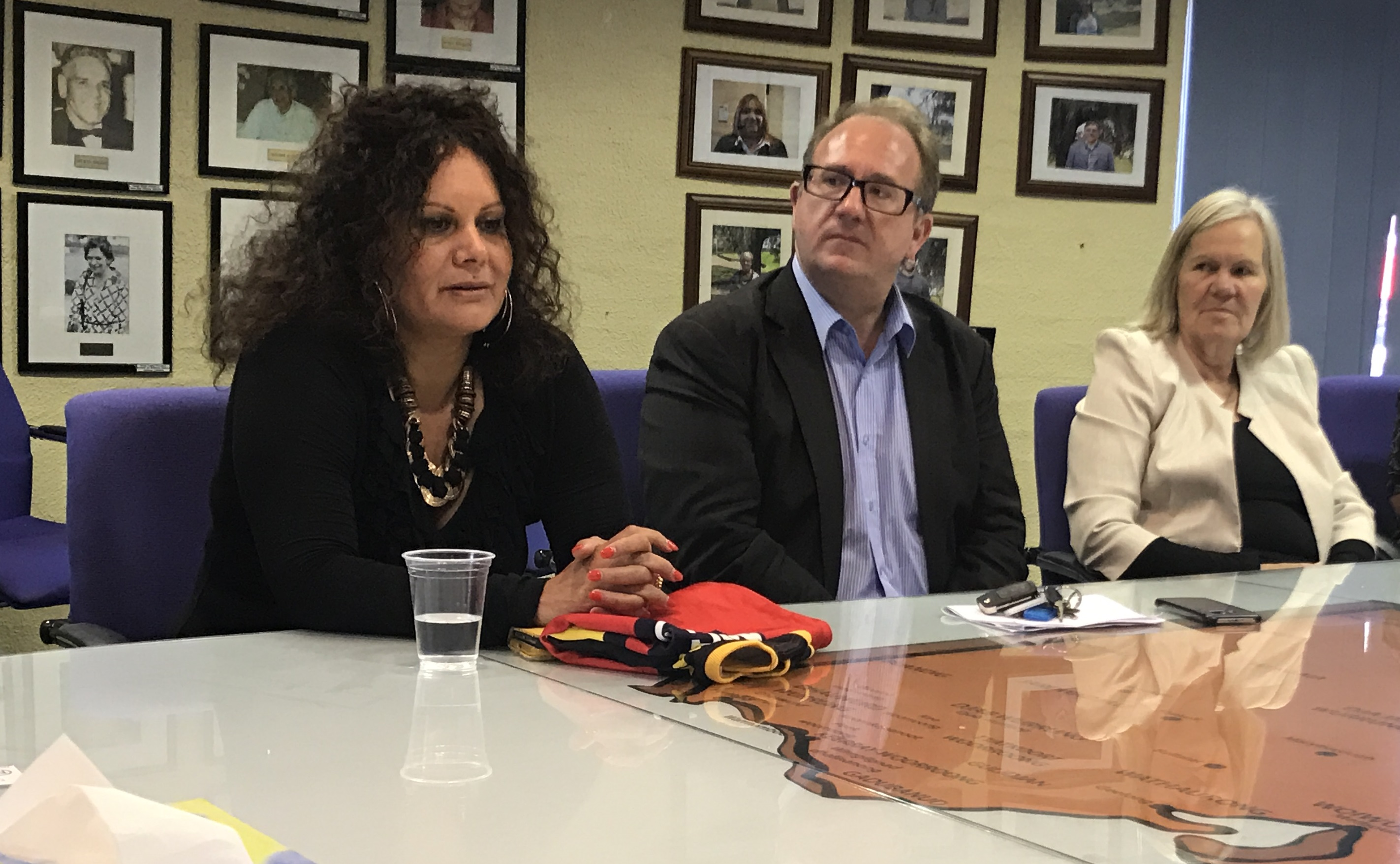 David Feeney speaking with local constituents and Malarndirri McCarthy